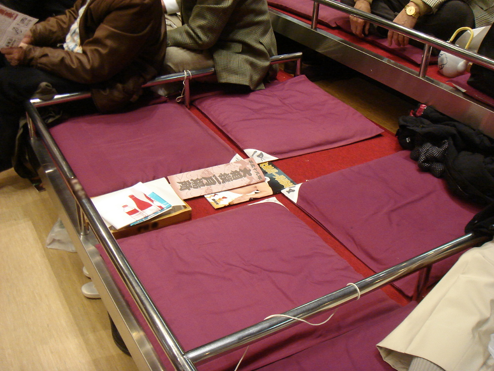 Sumo box seat,Ryogoku-Kokugikan.